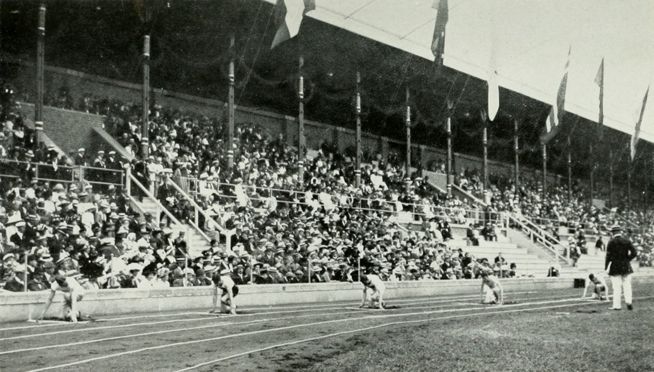 The start of the men's 200 metre final at the 1912 Summer Olympics. Ralph Craig (USA), Donald Lippincott (USA), Richard Rau (GER), Charles Reidpath (USA), Donnell Young (USA)